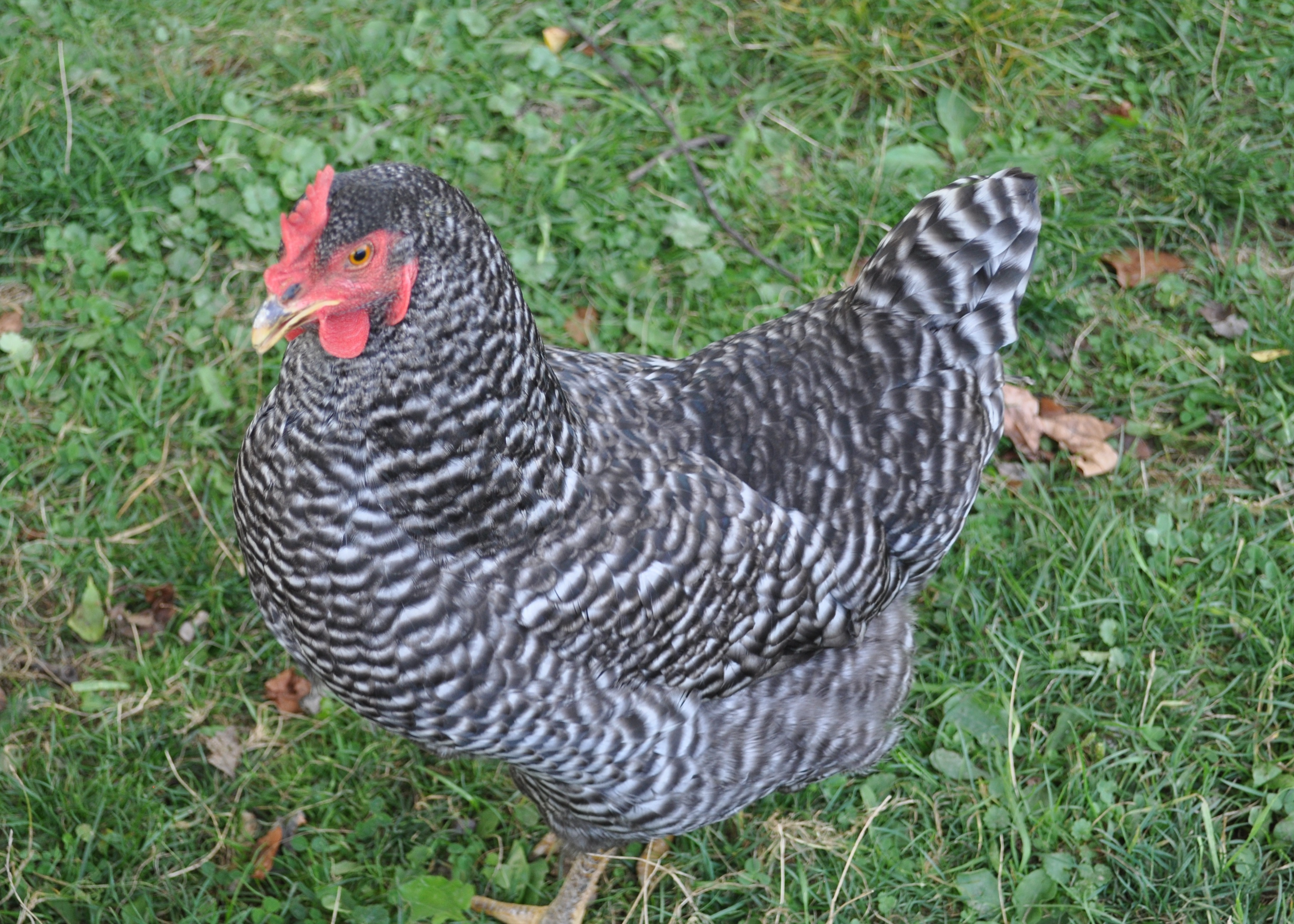 A Barred Plymouth Rock hen.